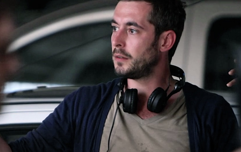 Xavier Legrand on the shooting of "Just before Losing Everything"